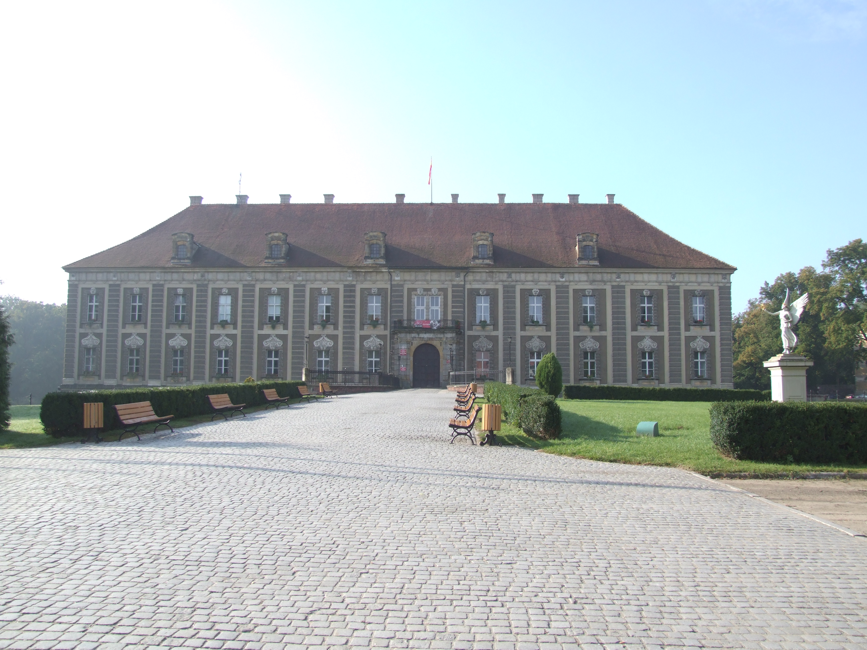 The facade of the palace in Żagań